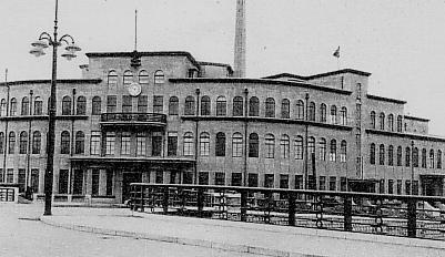 Former Kyobashi Ward Office